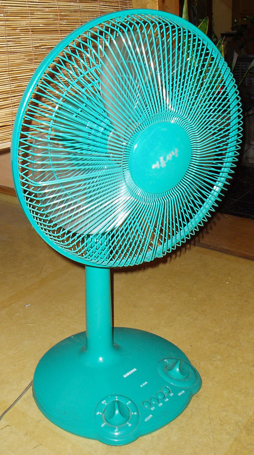 Samsung_Electric_fan, 여름사냥